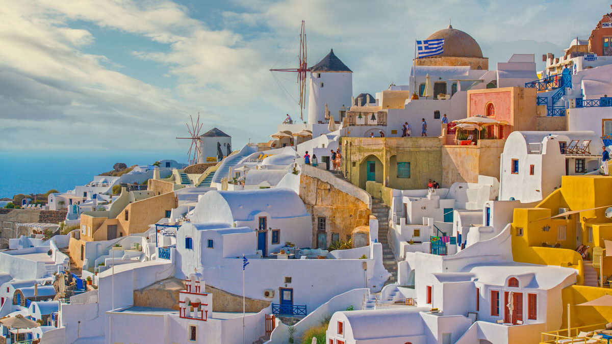 photographer